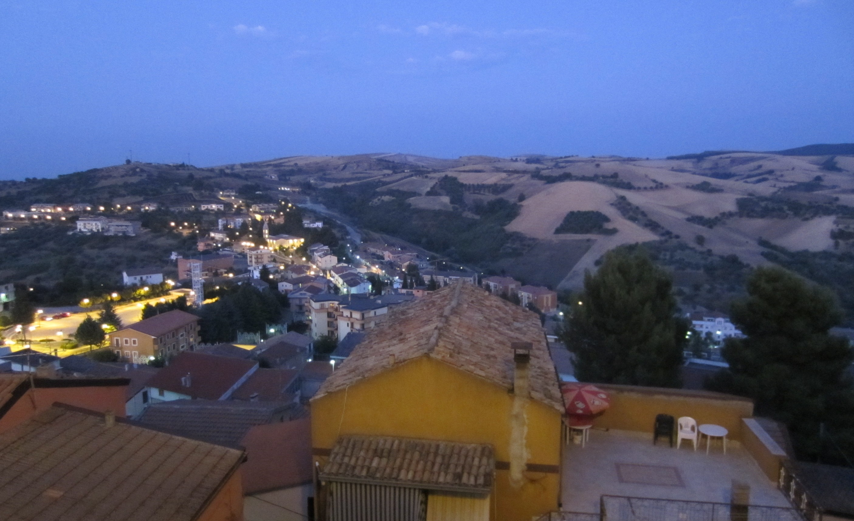 Ripacandida